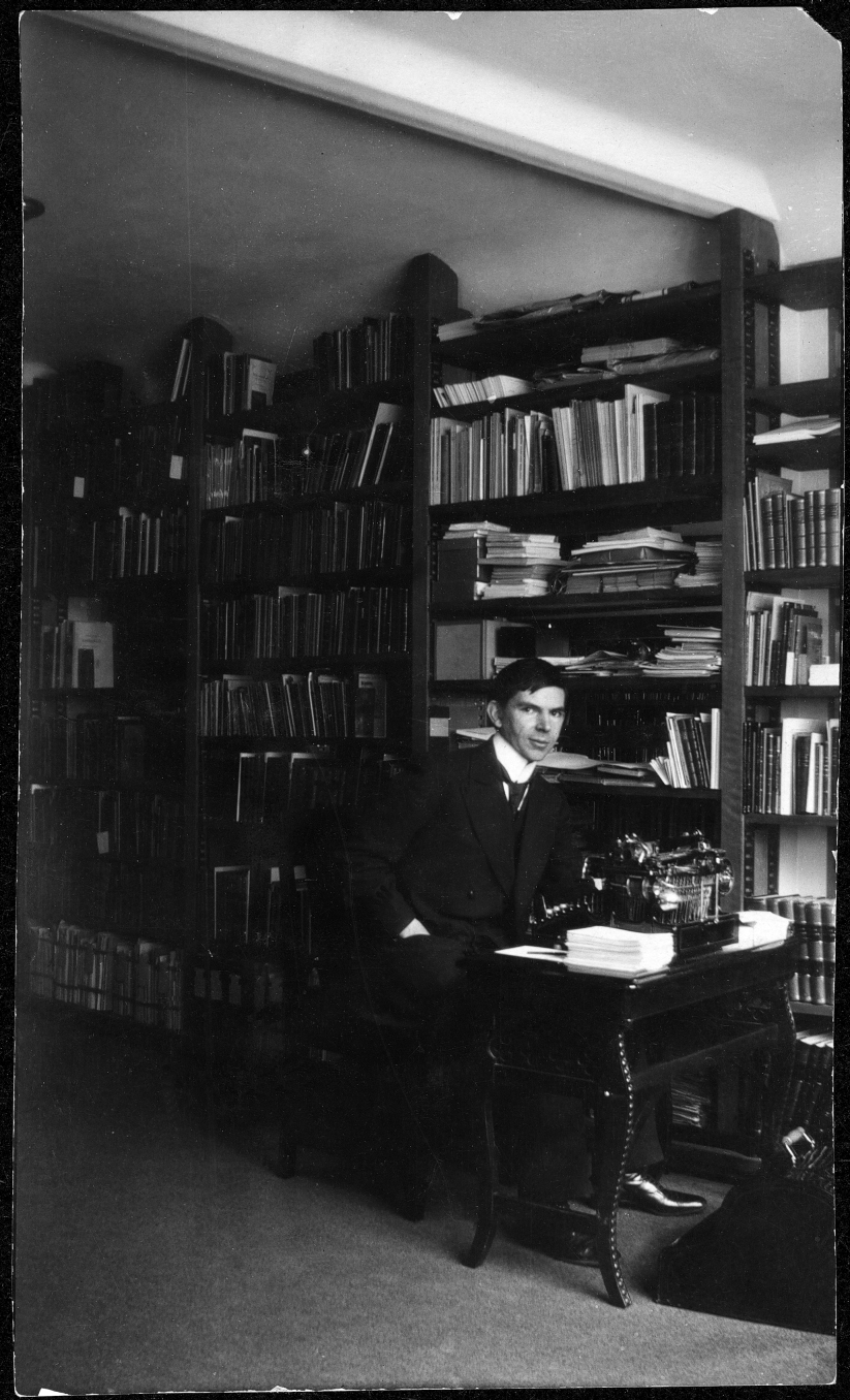 Photograph of the Finnish translator and librarian Holger Nohrström (1885–1939).